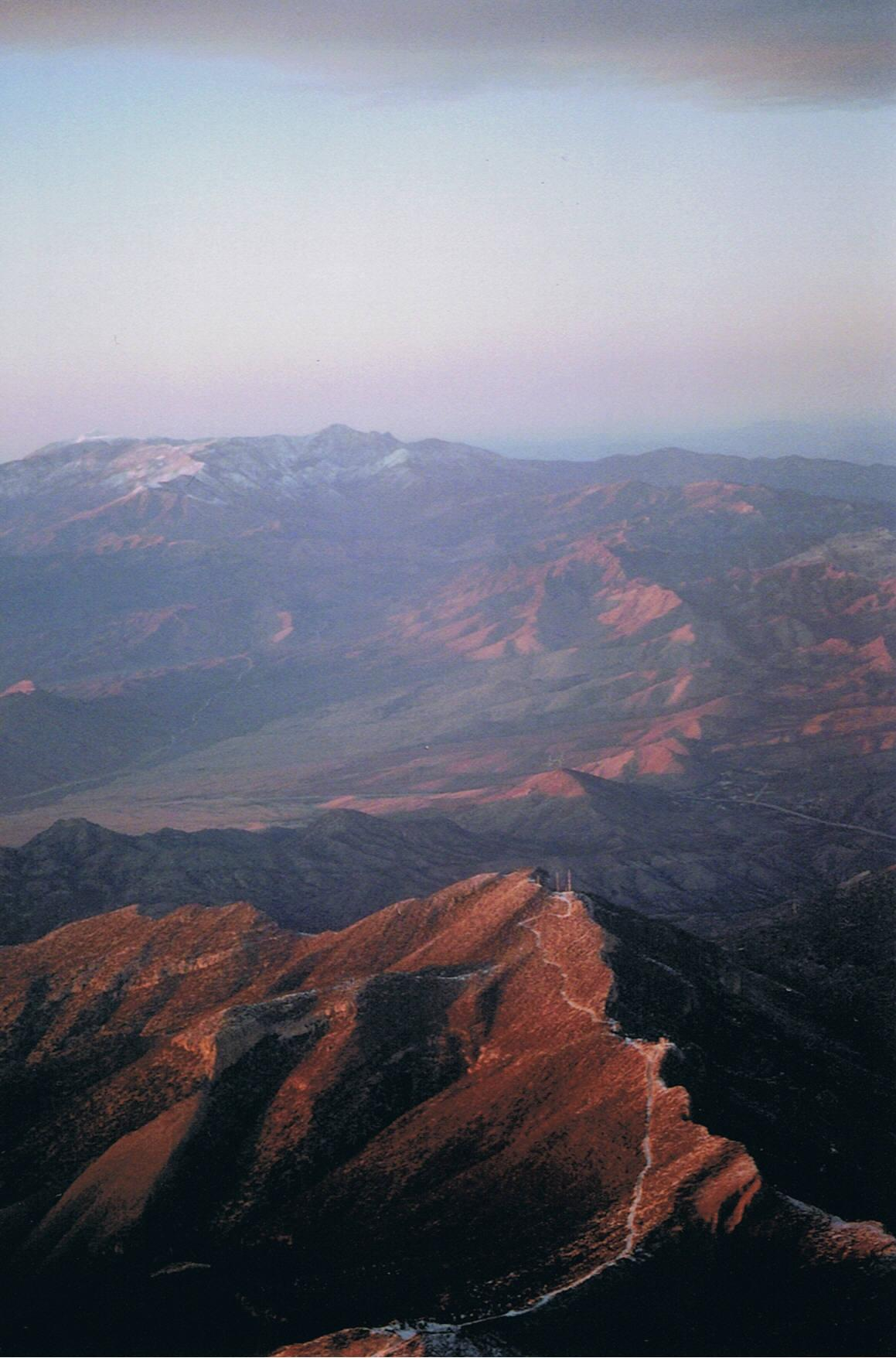 Mountains west of Las Vegas in the Mojave Desert in December.